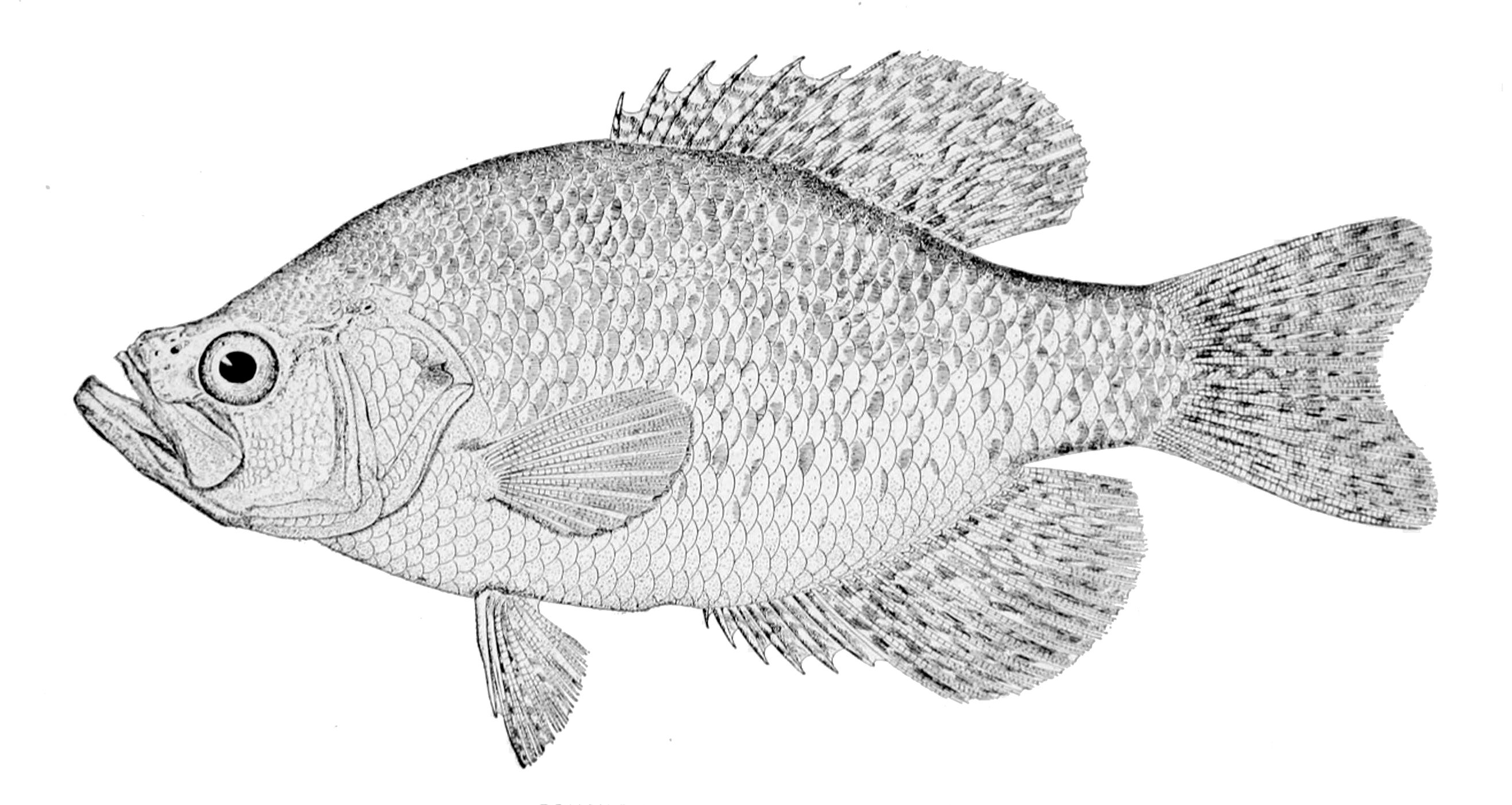 Pomoxis annularis